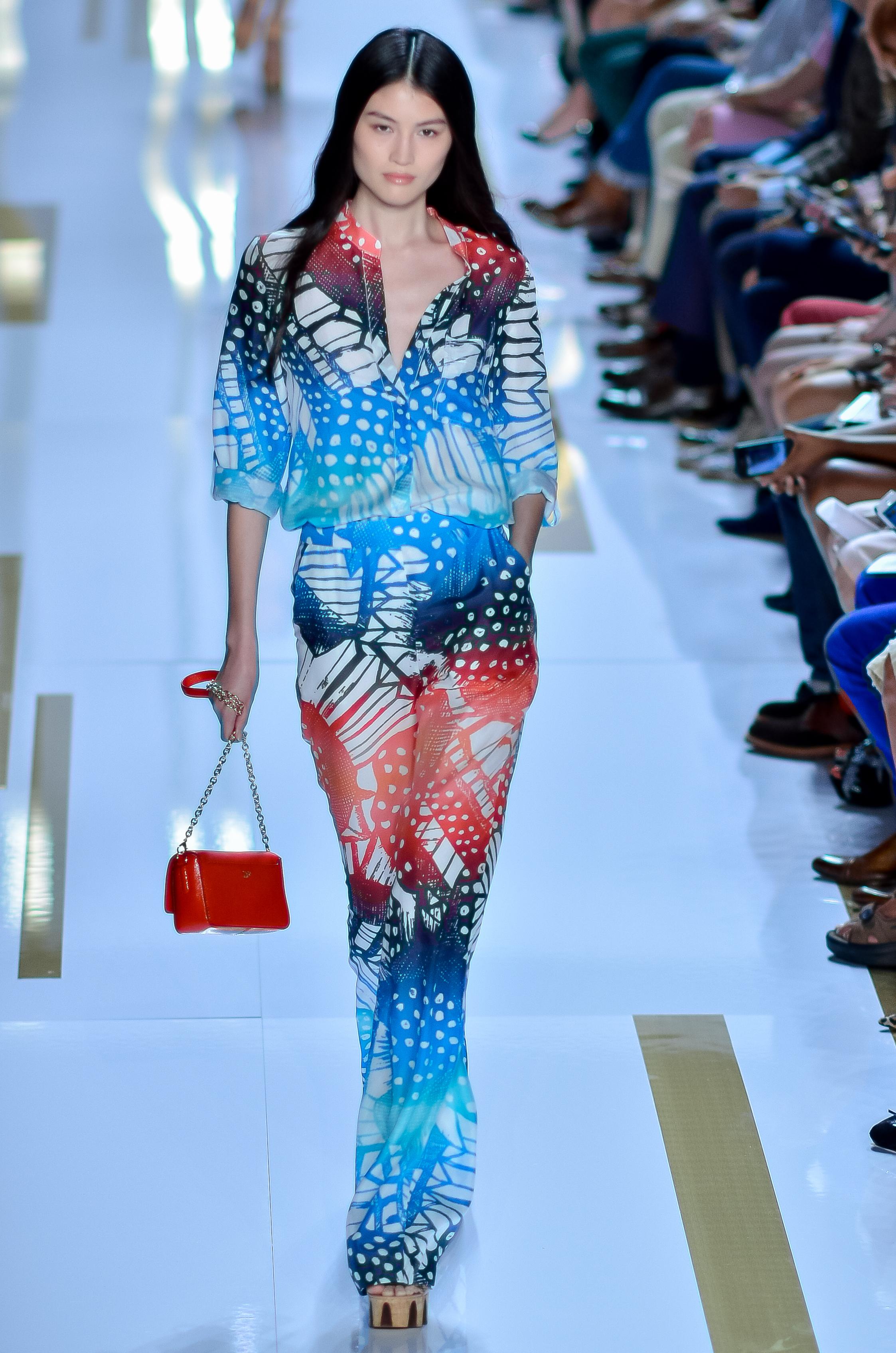 Sui He walks the runway at the Diane von Fürstenberg Spring/Summer 2014 show at New York Fashion Week, September 2013.